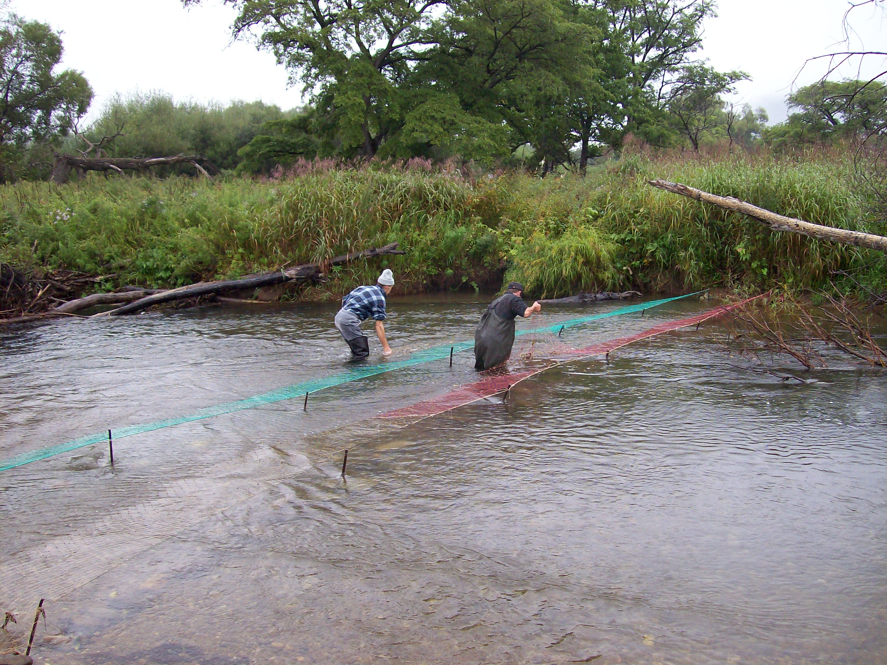 Poaching of a salmon at the Far East river